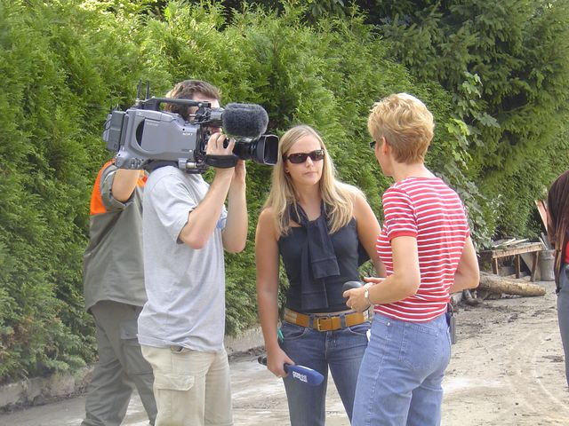 TeleBasel ENG Crew in Switzerland with Sony XDCAM camcorder PDW-510.